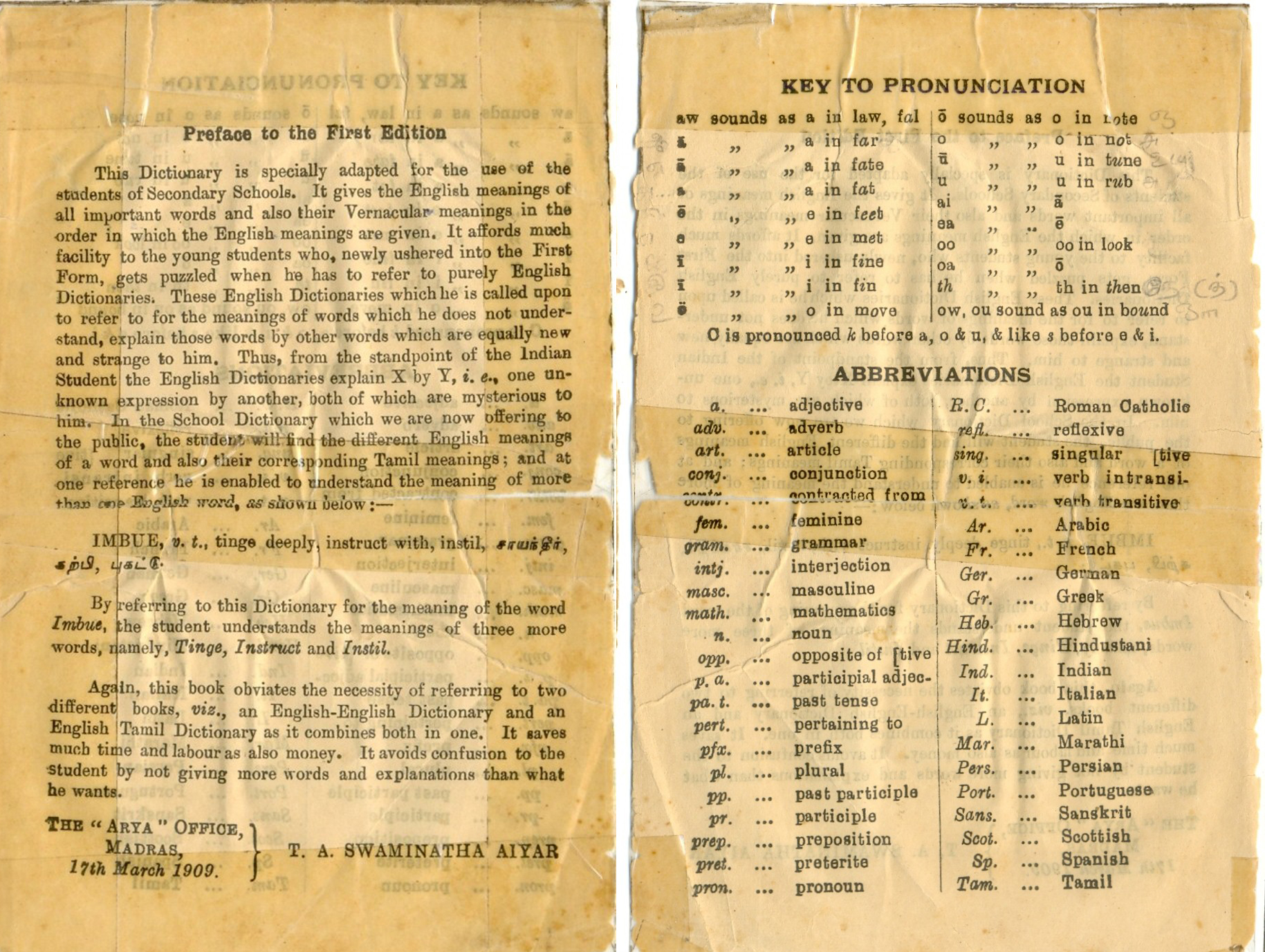 the bilingual dictionary of the Thamizh(Tamil) language. year 1909 (eng-eng-tam), Tamilnadu, India